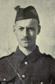 Frederick Fisher VC Title: The Canadian annual review war series, Volume 4 Creator: Hopkins, J. Castell (John Castell), 1864-1923 Publisher: Toronto : Canadian Annual review Date: 1918 Possible Copyright Status: NOT_IN_COPYRIGHT